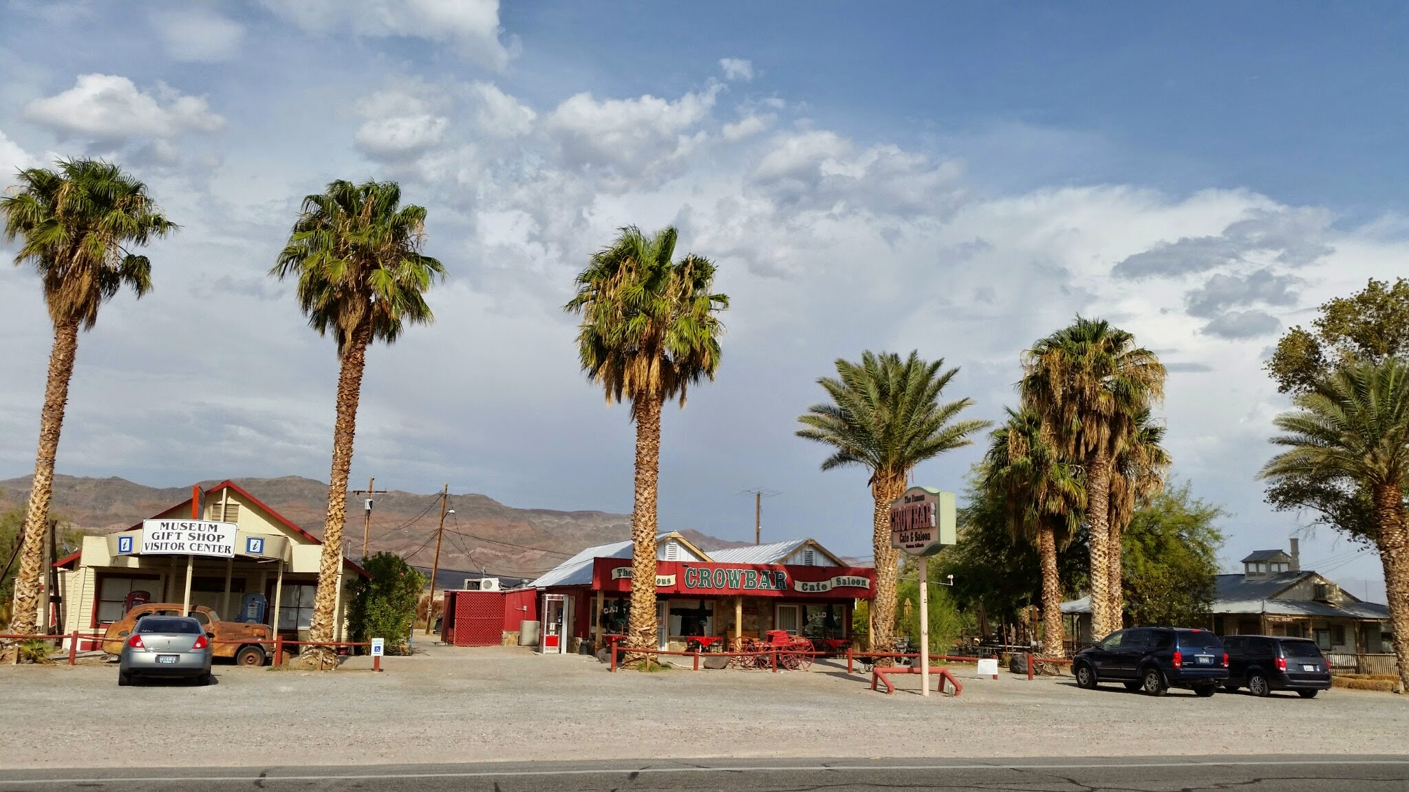 Shoshone, California. Museum and Crowbar Café and Saloon